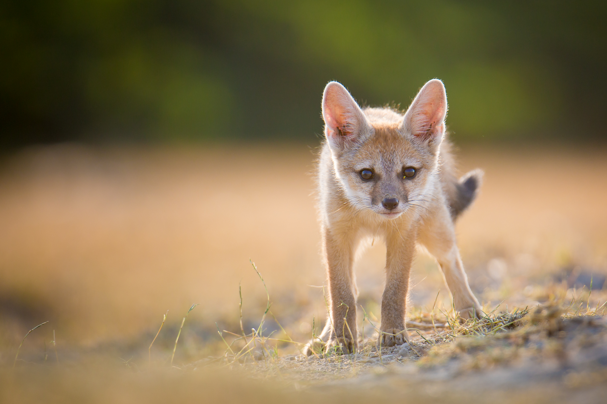 At the Little Rann of Kutch; notice the black tail tip